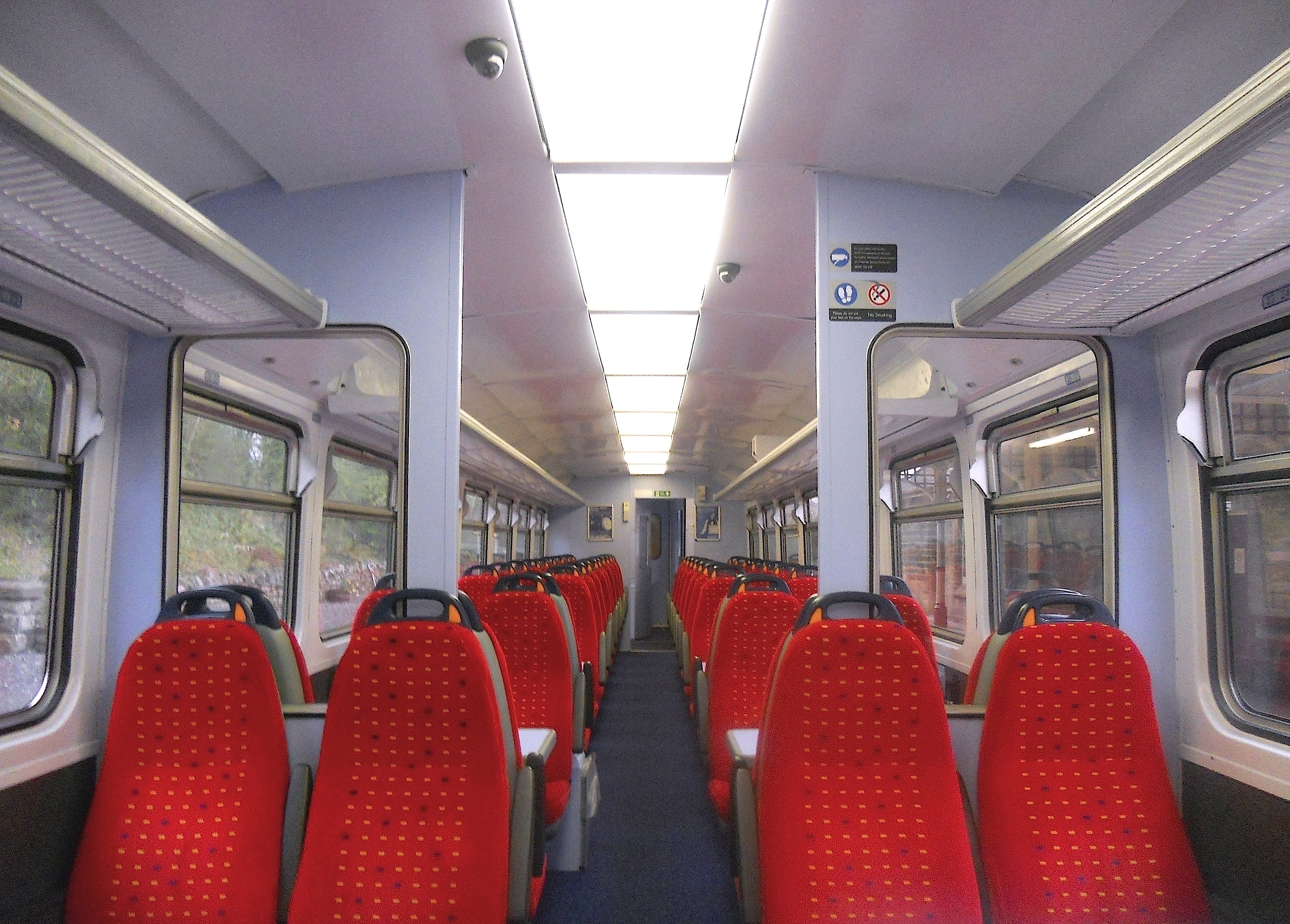 A half internal view of a refurbished East Midlands Trains Class 153